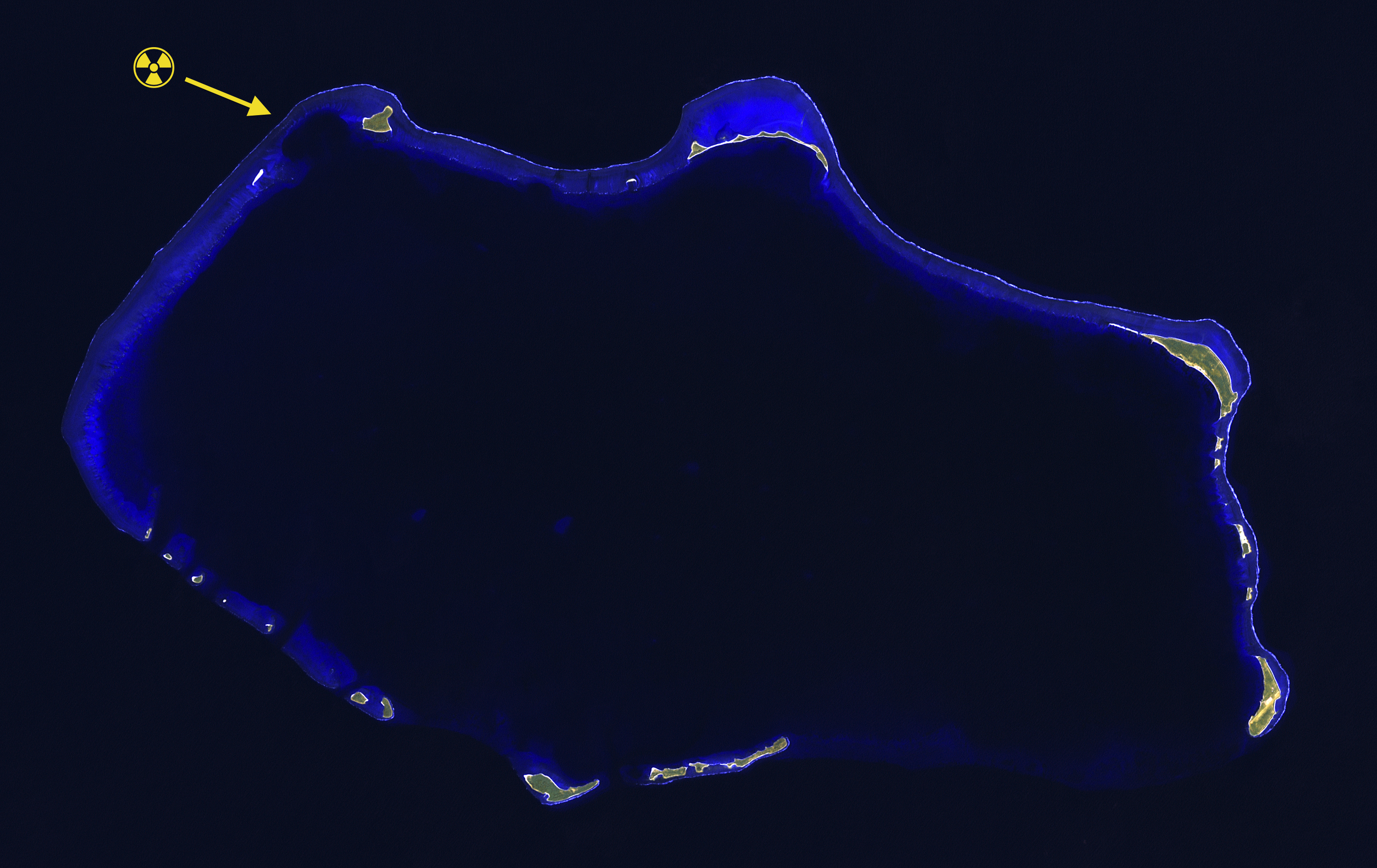 Arrow and radiation trefoil indicate the Castle Bravo nuclear test crater. Composite "false color" multispectral satellite image of Bikini Atoll, Marshall Islands. NASA Landsat 7 ETM+ bands used were 7 (SWIR), 5 (SWIR) and 1 (blue), and the image was pan-sharpened to 15m resolution. Imagery courtesy of NASA/USGS.